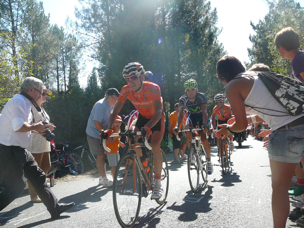 Igor Antón, Marzio Bruseghin and Gorka Verdugo riding in stage 19 of the 2011 Vuelta a España